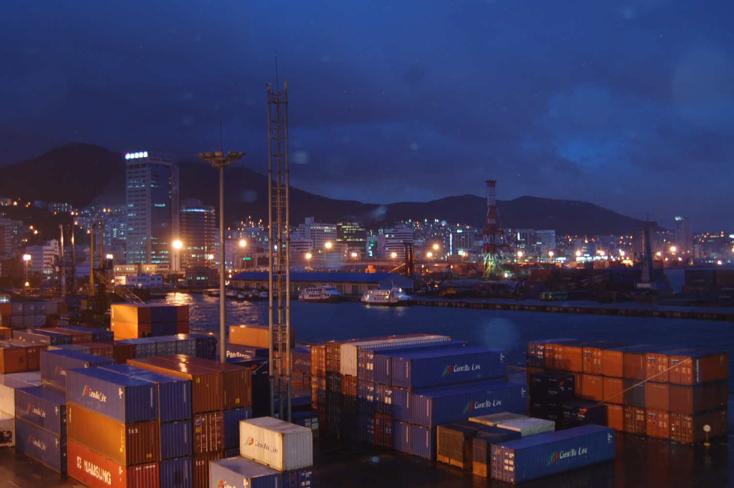 Korea, Busan/Pusan Harbour Cargo Terminal